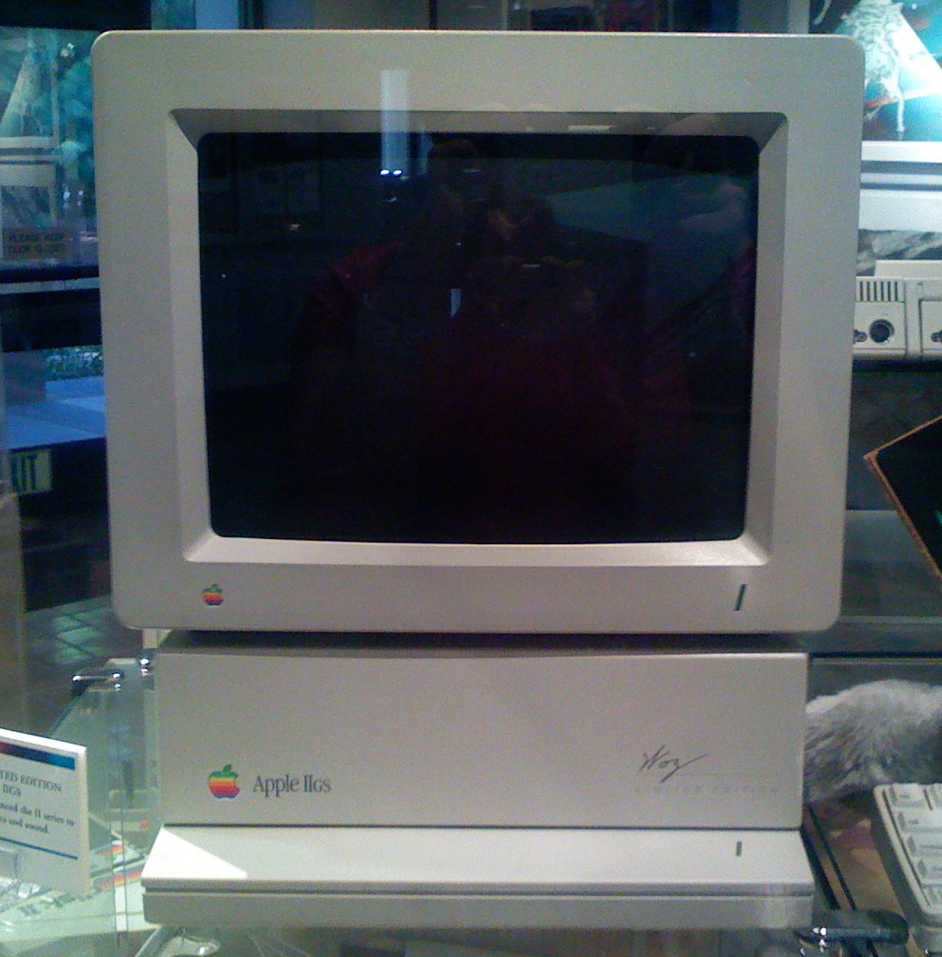 An early-model Apple IIGS "Woz Edition", with Steve Wozniak's signature on front.